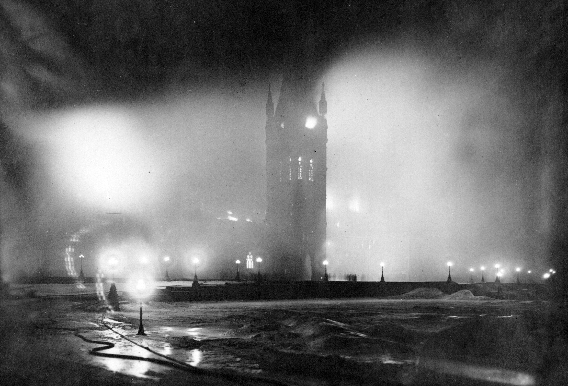 Centre Block fire, Parliament Buildings. Photograph taken at 12:30 a.m., a few minutes before the collapse of the tower.